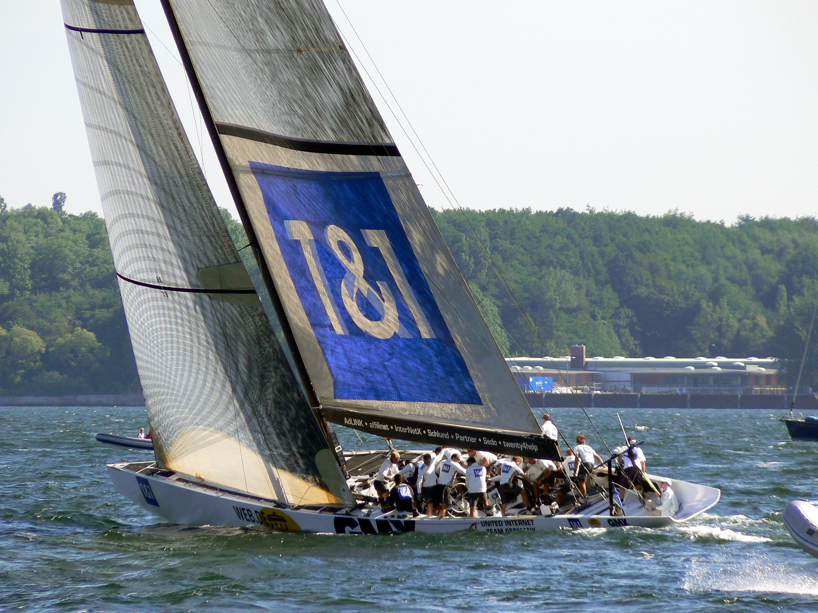 German Sailing Grand Prix Kiel 2006. United Internet Team Germany.